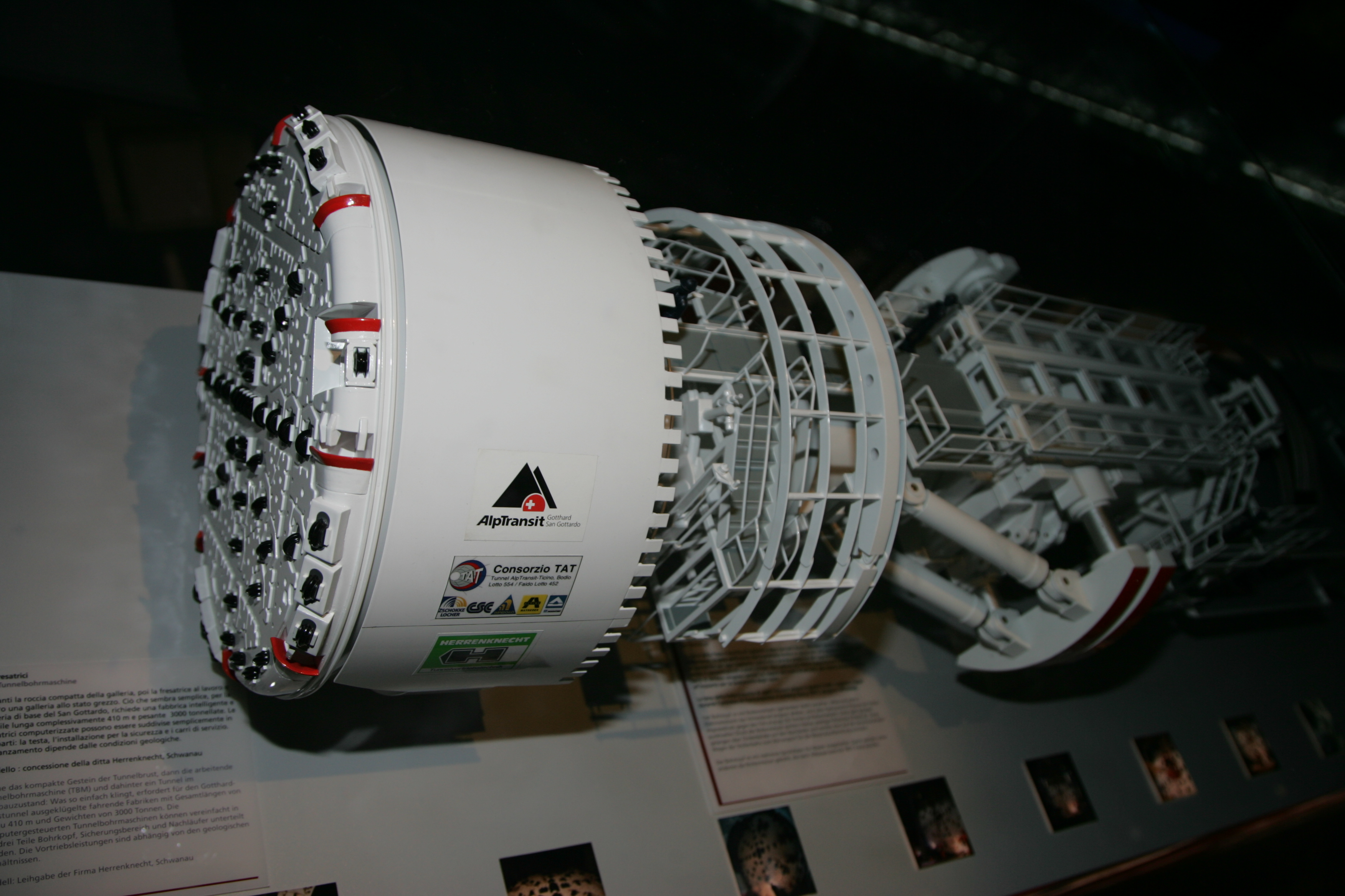 Model of a tunnel boring machine. On display at Gotthard Base Tunnel exhibition.